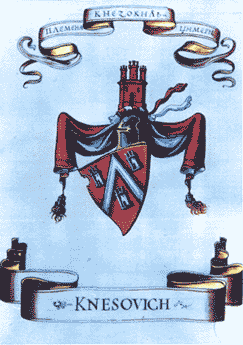 Coat of arms of the Knezhevich family from Chiprovtsi